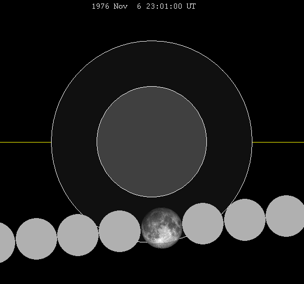 November 1976 lunar eclipse chart of moon's path through the earth's shadow. thumb